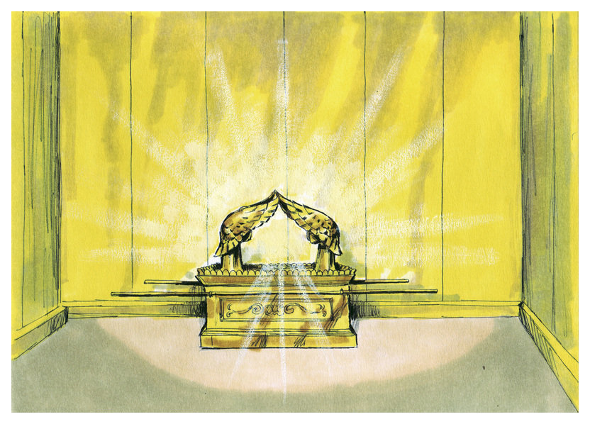 Biblical illustration of Book of Exodus Chapter 26